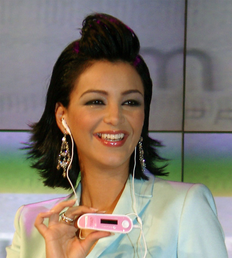 Verona Pooth, November 2004.